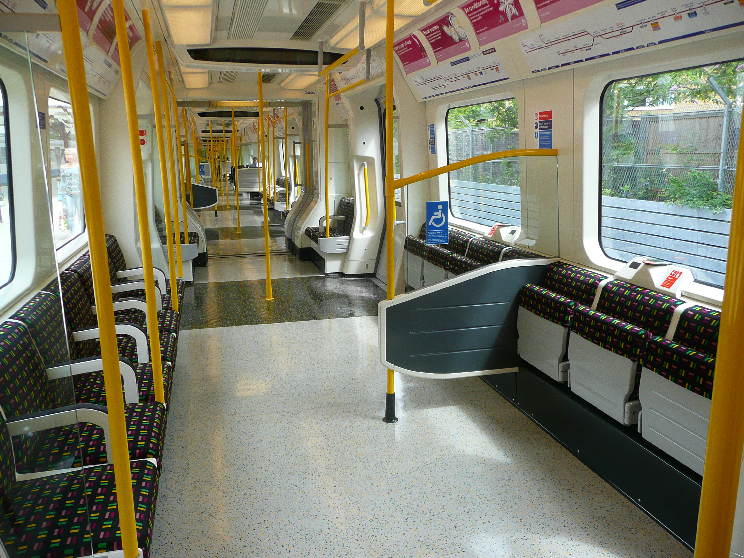 S stock interior of a special needs car with tip-up (folding) seats for walking passengers and space for 'personal wheeled transports' such as wheelchairs and young children in a pushchair (buggy, stroller). The open space also creates more room for crush-load standing passengers.